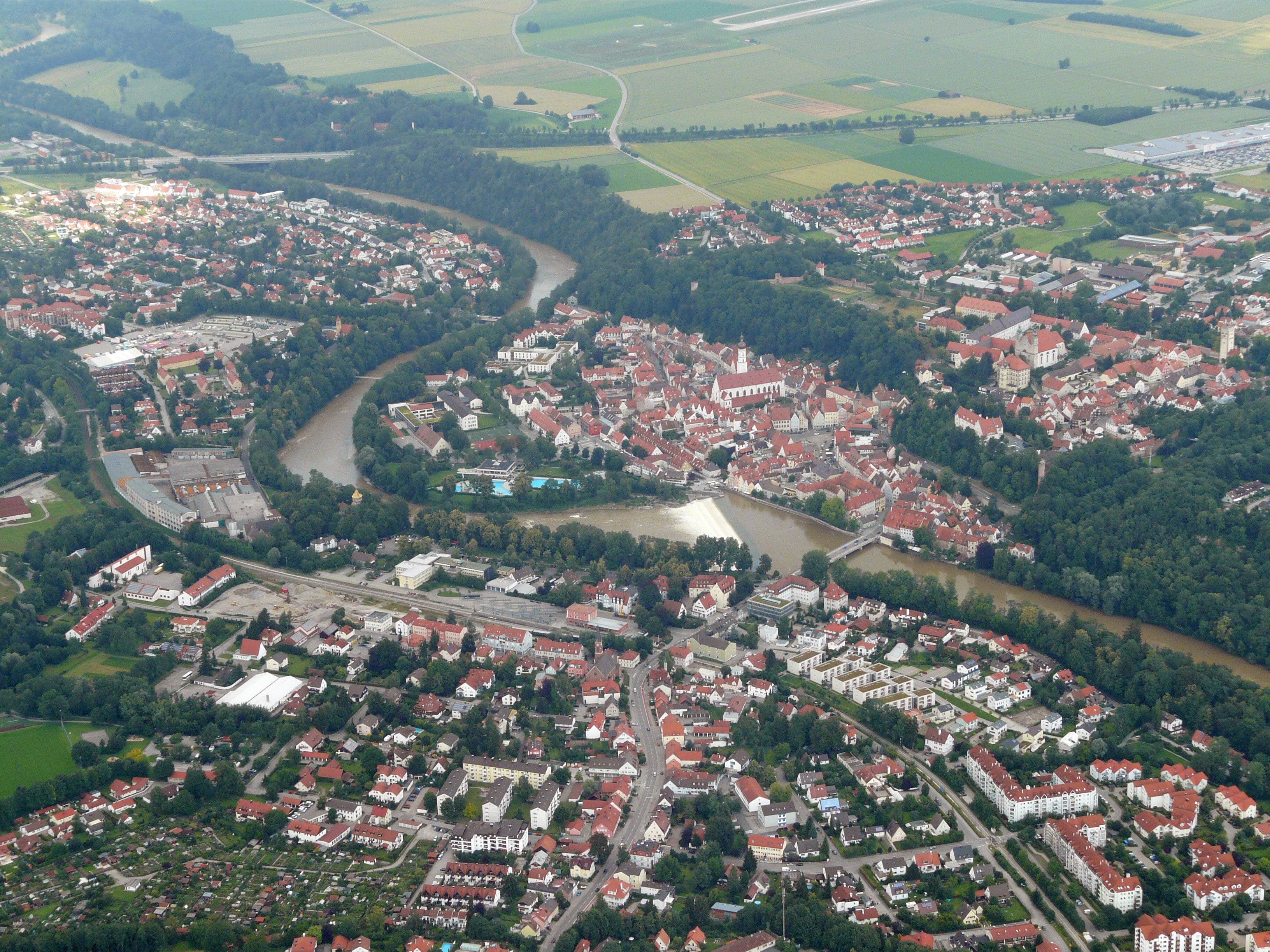 Landsberg am Lech von Südwesten